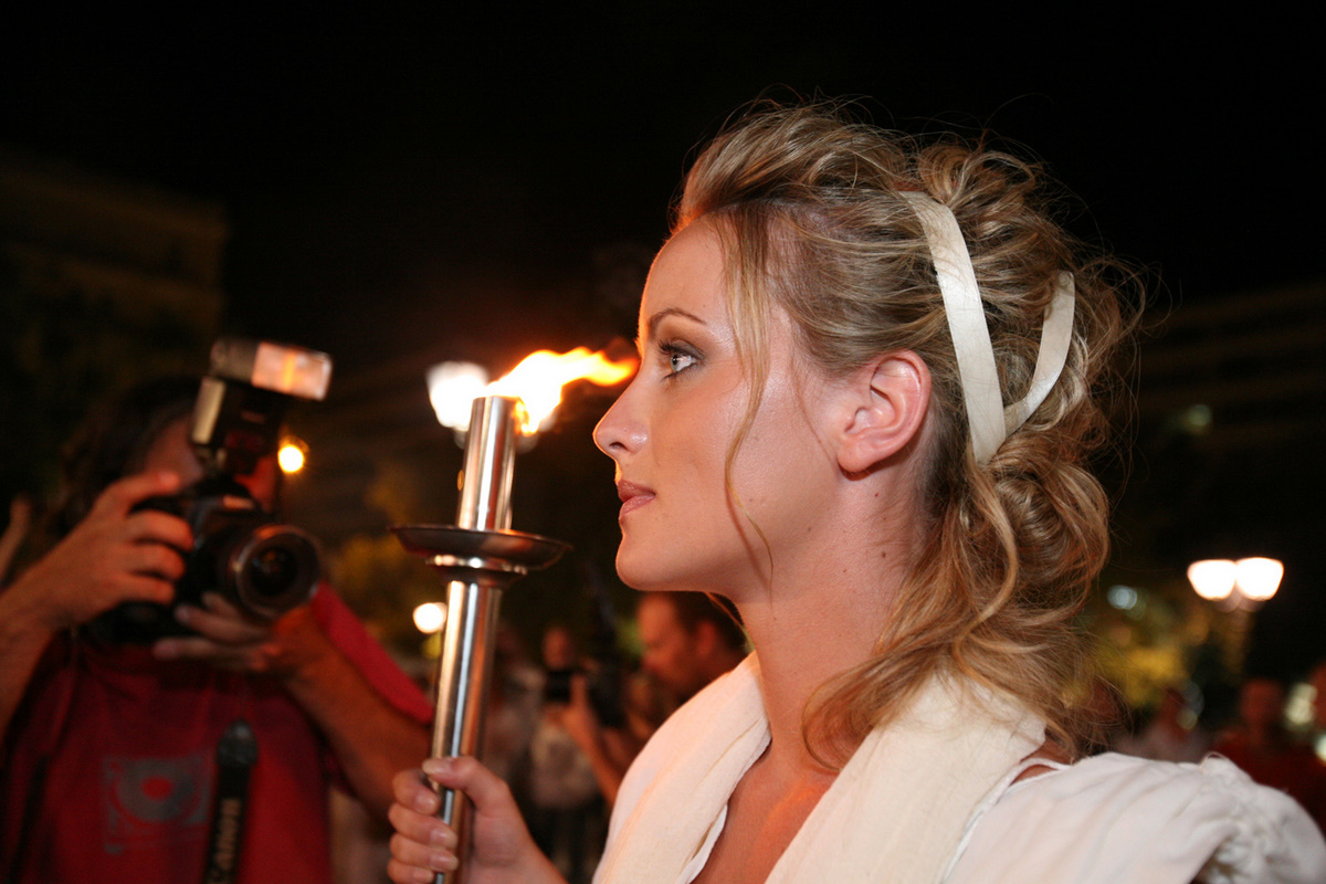 The start of the international Human Rights Torch Relay on 9 August 2007